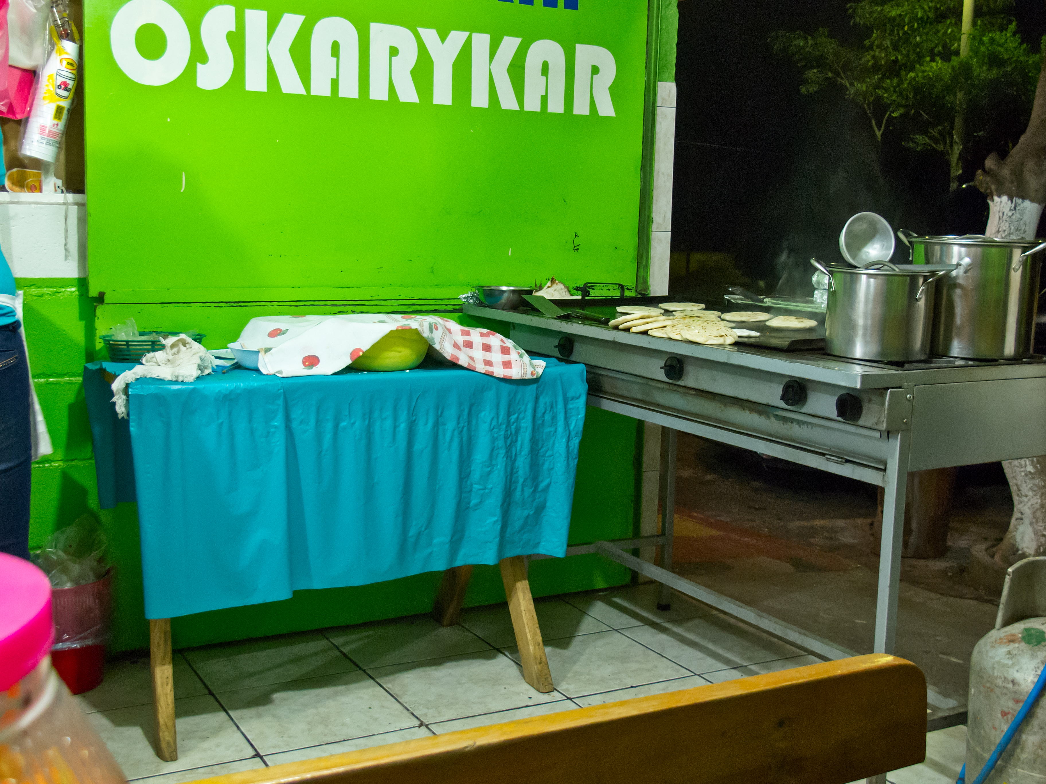 A typical setup for making pupusas in Olocuilta, El Salvador. Table (L) has the masa (dough), with plastic bowls of cheese, ground pork rinds (chicharrón), loroco, and refried beans (frijoles). All raw ingredients are covered with a towel to keep flies out of them. Pupusas are cooking on the griddle (plancha). Metal bowl on the left side of the plancha (griddle) has oil, since one must put a little oil on the hands so that the rice flour pupusas don't stick to the hands or griddle. Already cooked pupusas are towards the front (closer to the camera), and a few ready made are wrapped in aluminum foil on the far side, barely visible behind the pots. The pots contain coffee and hot chocolate.